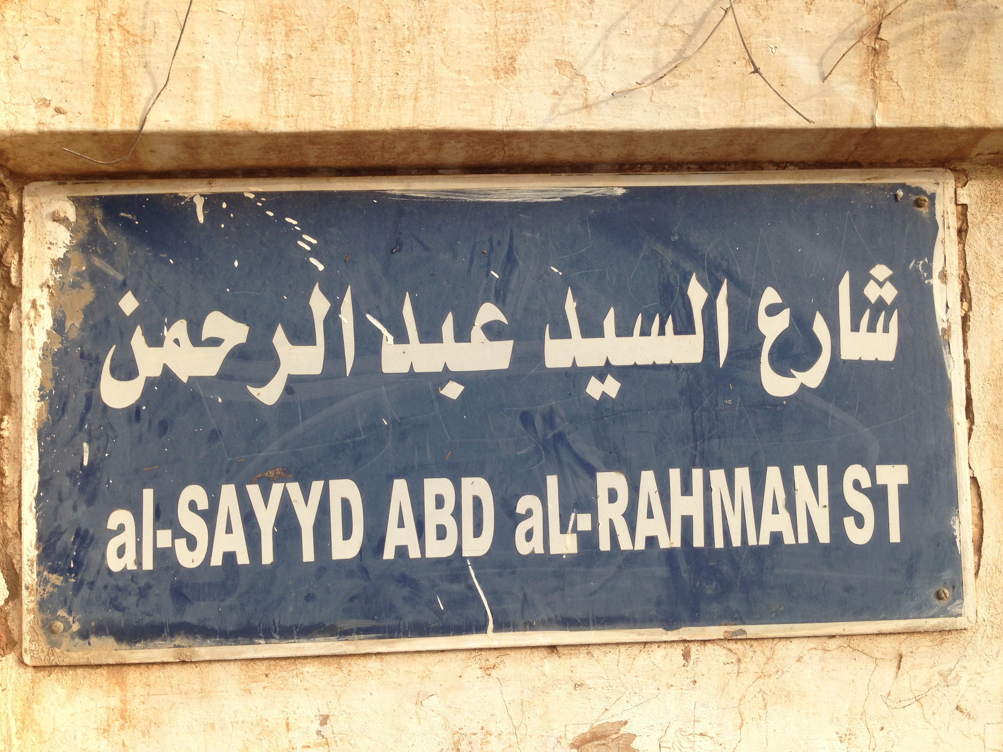 Sign of a street in Khartoum named after Sayyid Abd al-Rahman al-Mahdi (15 July 1885 – 24 March 1959), one of the leading religious and political figures during the colonial era in the Anglo-Egyptian Sudan (1898–1955)